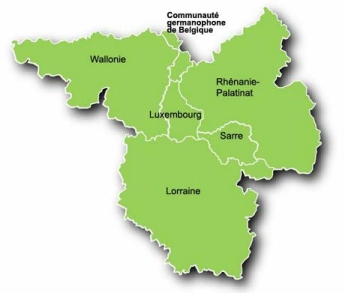 Greater Region of Luxembourg